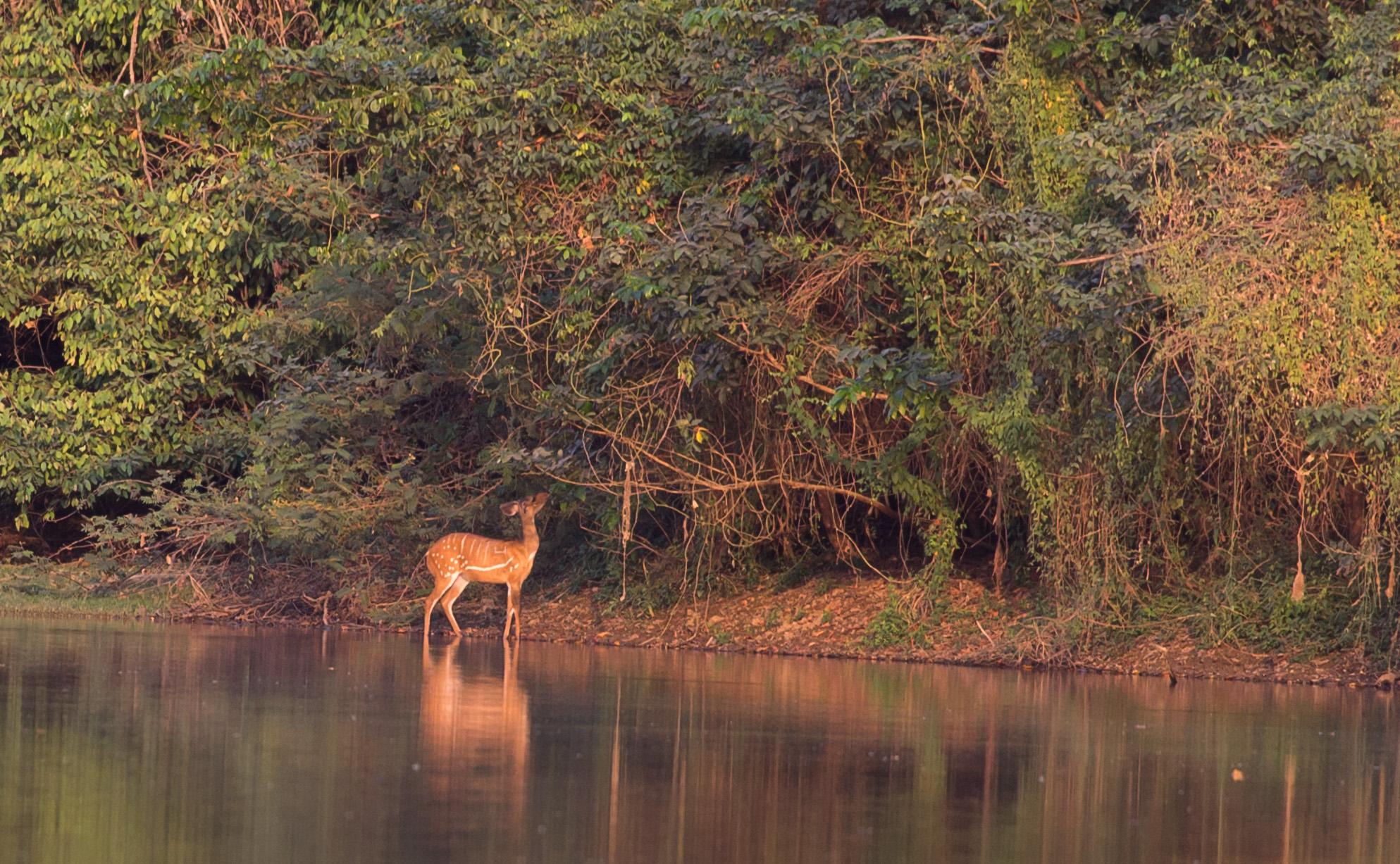 bushbuck next to comoe river